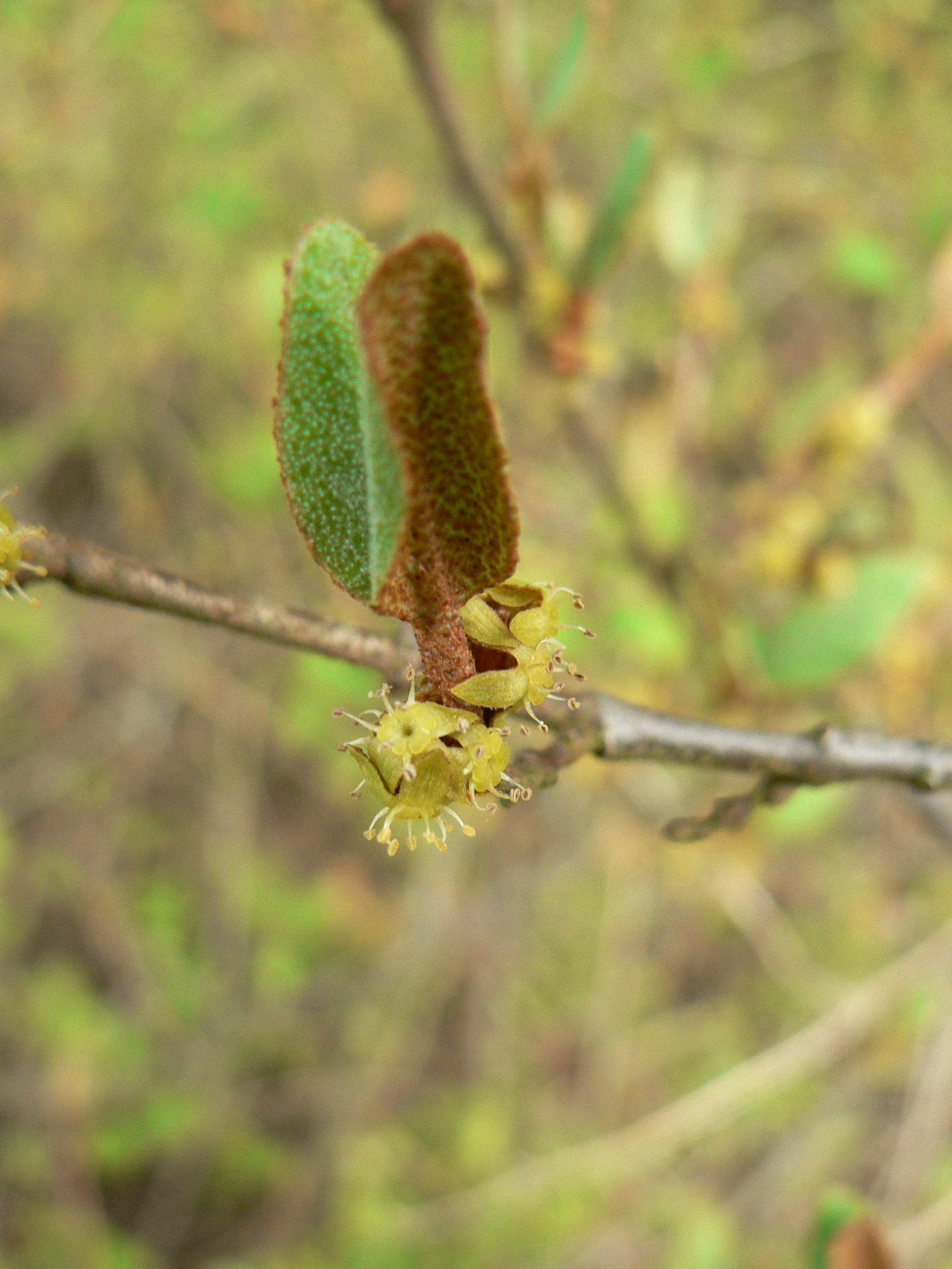 Russet Buffaloberry, Soopolallie, Soapberry; staminate